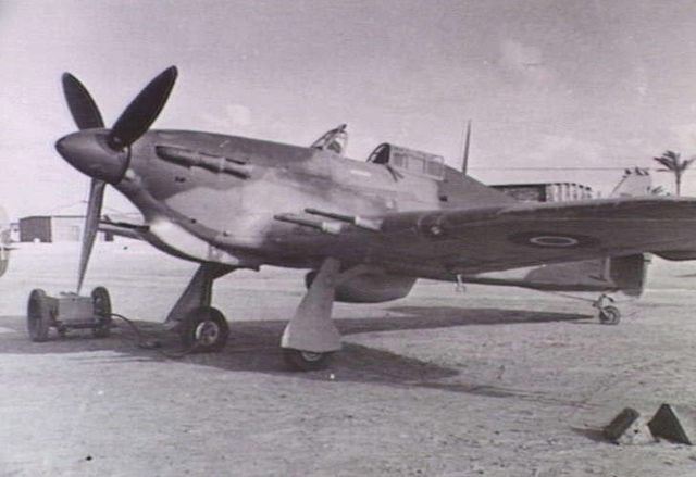 IDKU, EGYPT, 1943. A HAWKER HURRICANE IIC AIRCRAFT OF 451 SQUADRON RAAF ON THE AIRFIELD.